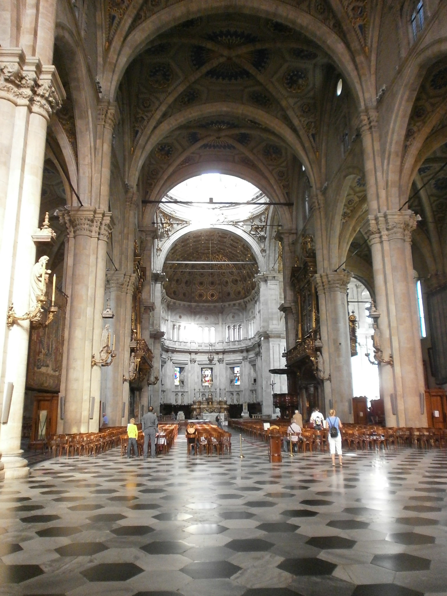 Como cathedral - italy -04